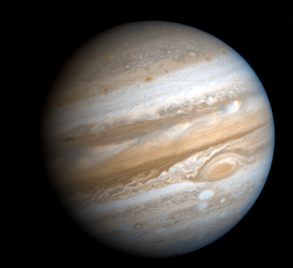 Seen in orange/blue by Voyager 1. Image Credit: NASA/JPL/Kevin M. Gill